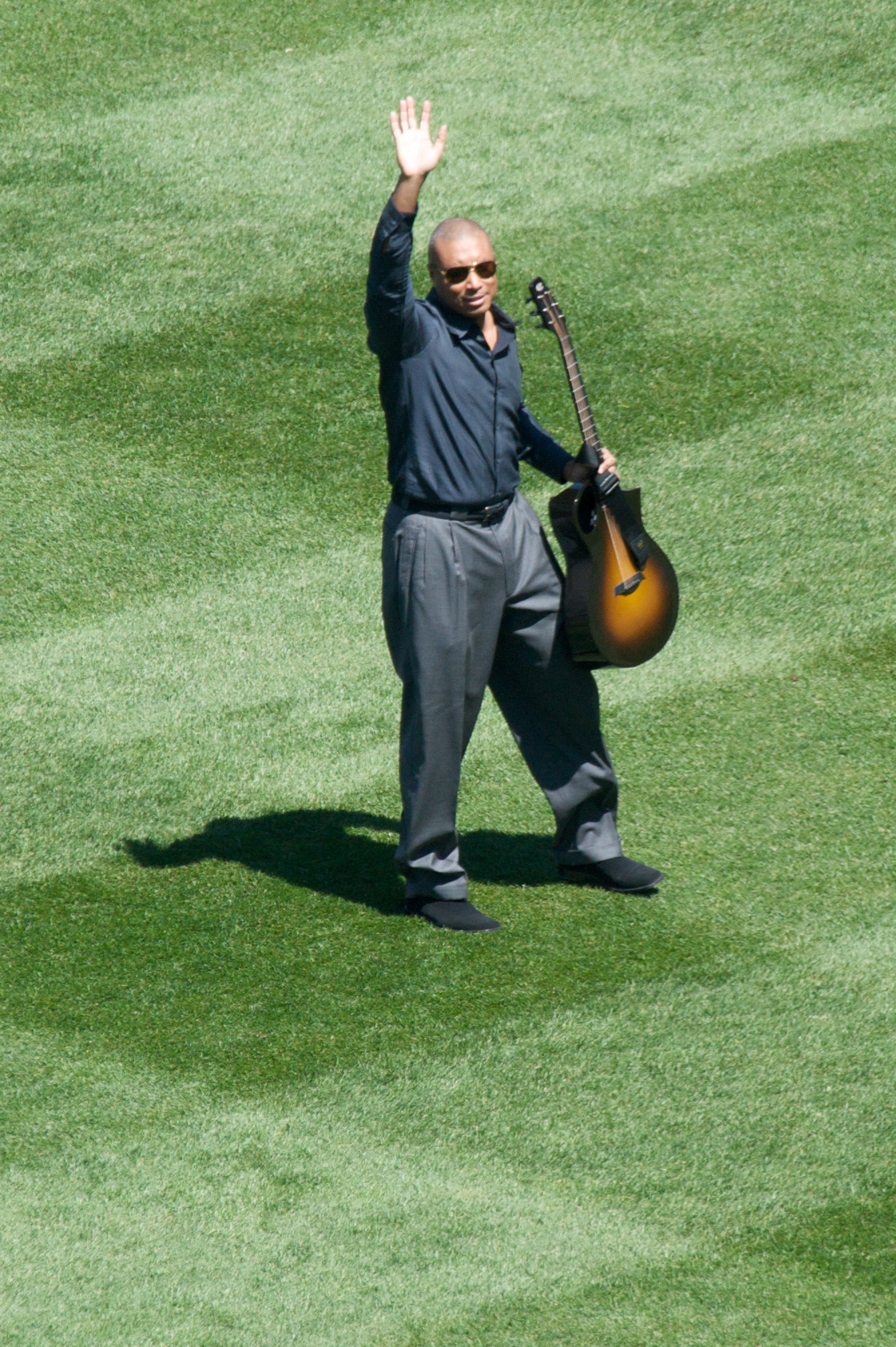 Bernie Williams